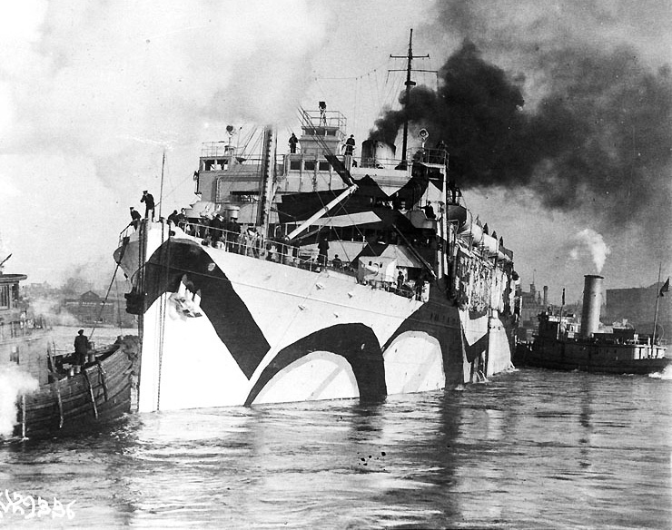 USS Orizaba (ID # 1536) Leaving her New York City slip and going down the North River, bound for France in 1918. Note her pattern camouflage scheme. U.S. Naval Historical Center Photograph.